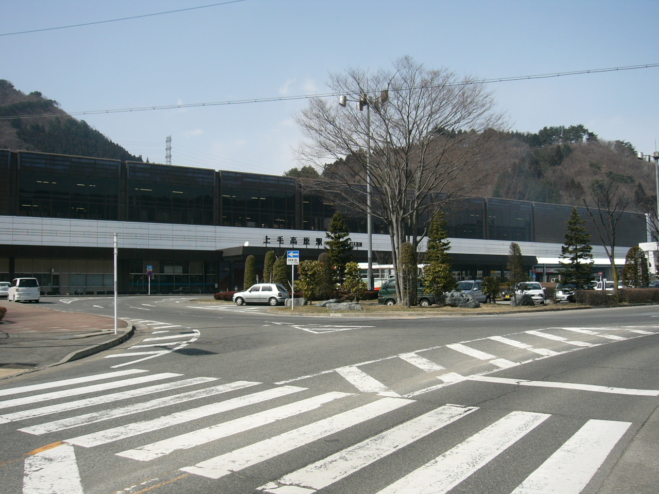 Jomo-Kogen Station (East Entrance)